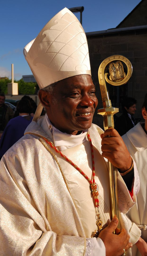 Cardinal Peter Turkson in Eckelrade, NL